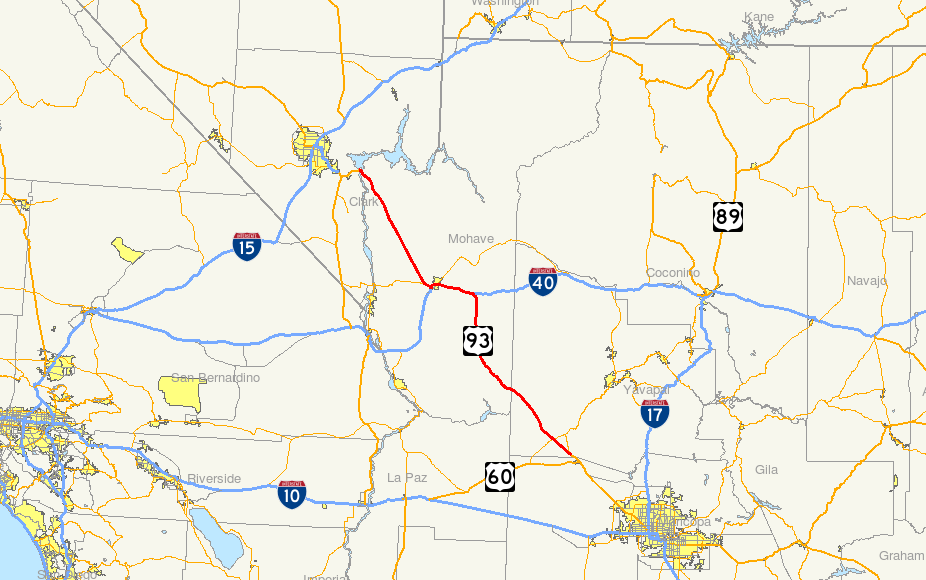 Map of U.S. Route 93 in Arizona